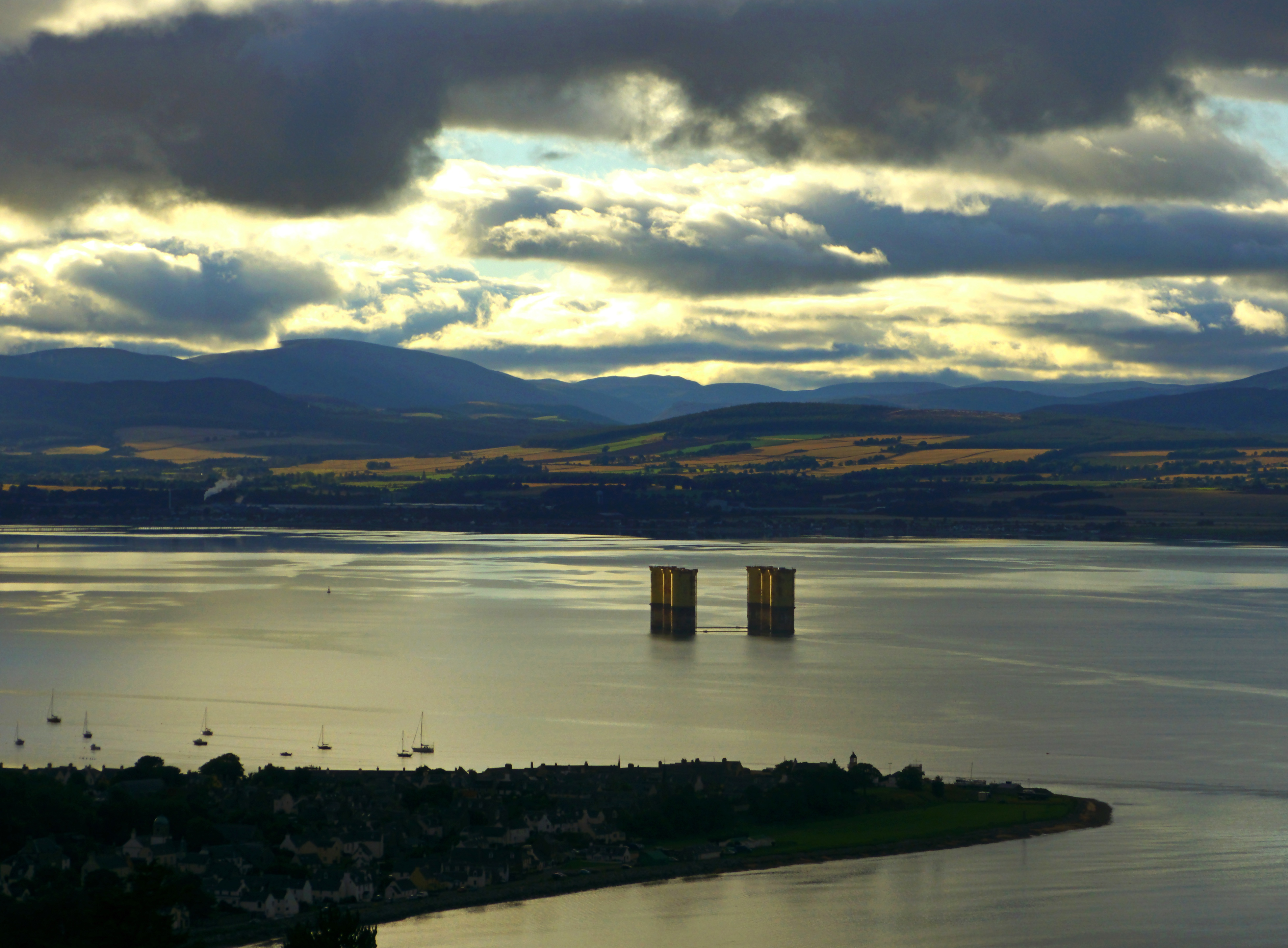 Special Light